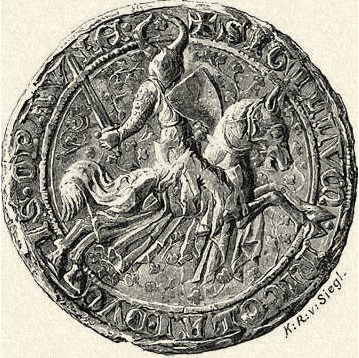 Sigil of Nicholas II of Opava